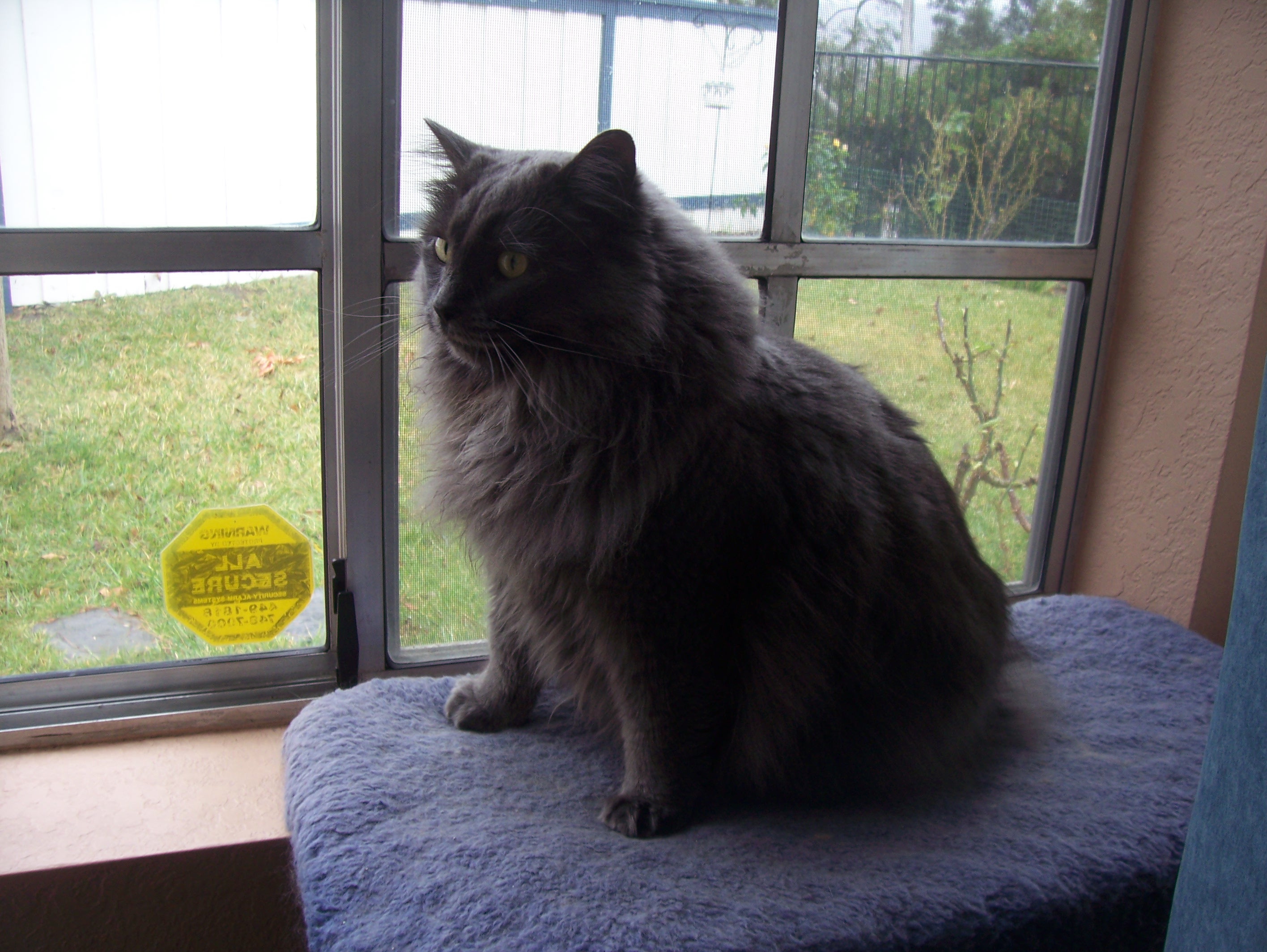 A photograph of a long-haired Manx, also known as a Cymric, in a perched position near a window.